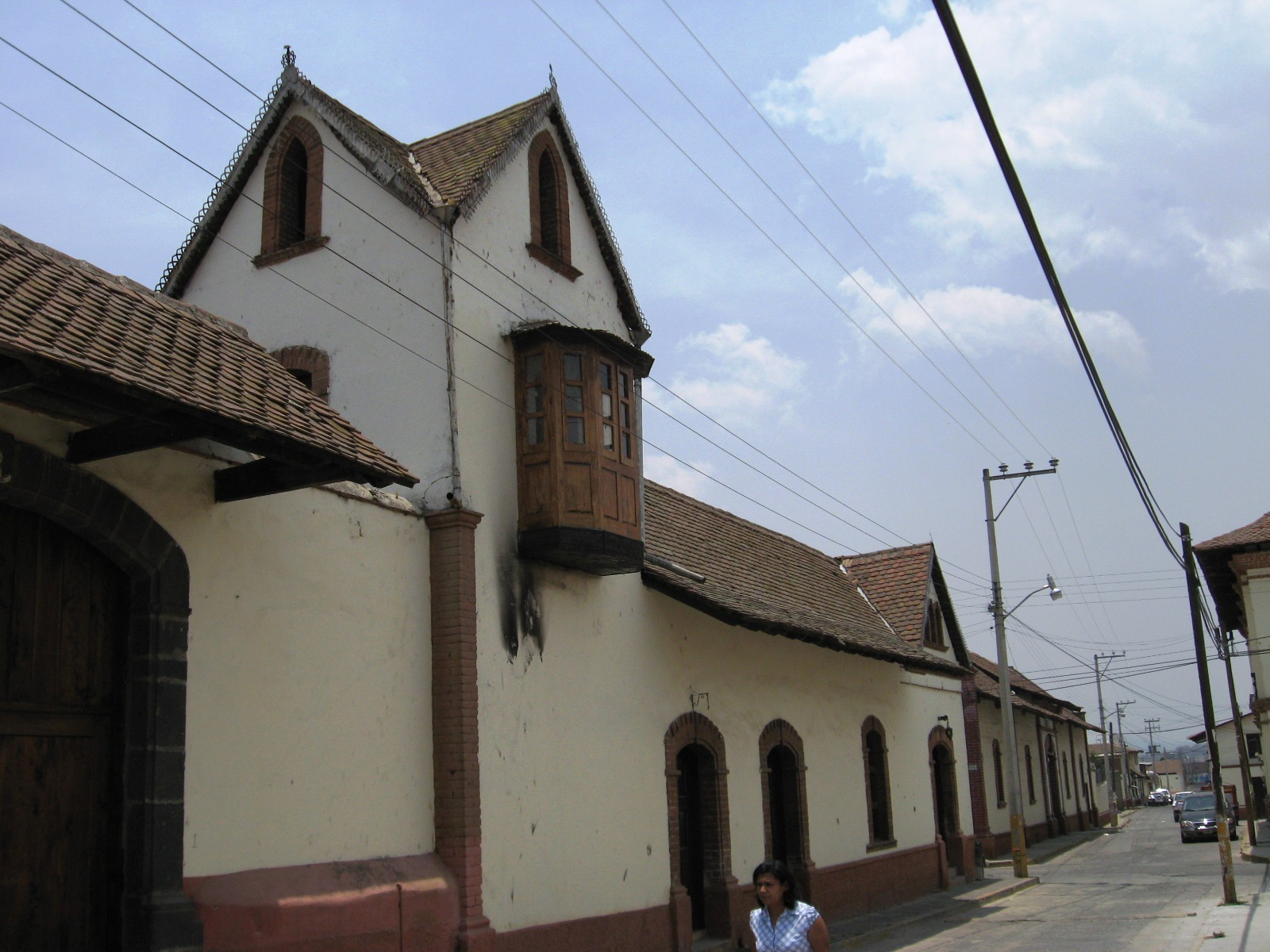 The "Casa Afrancesada" (lit. Frenchified House) in Ayapango, Mexico State, Mexico